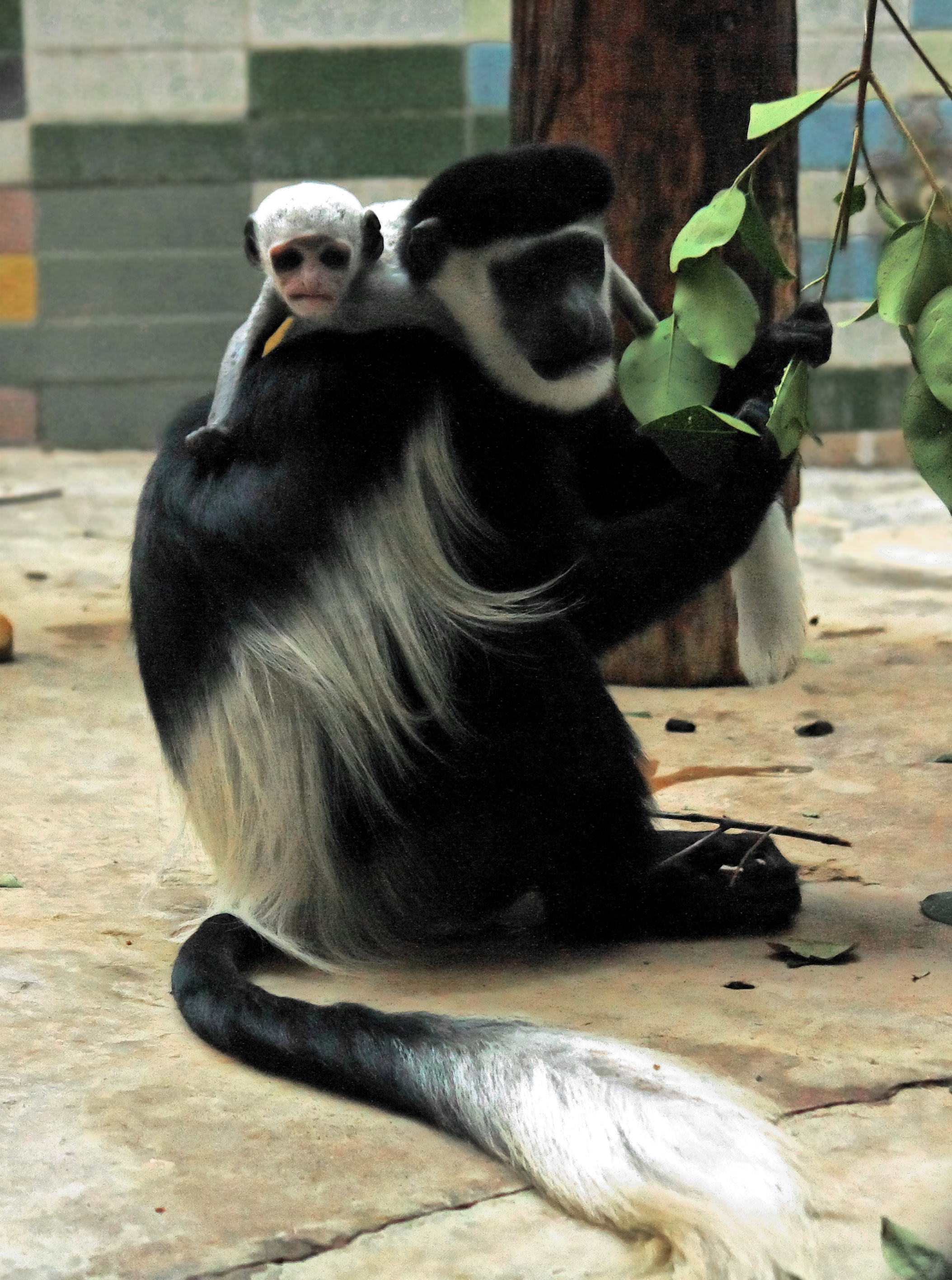 King Colobus in Shanghai Zoo